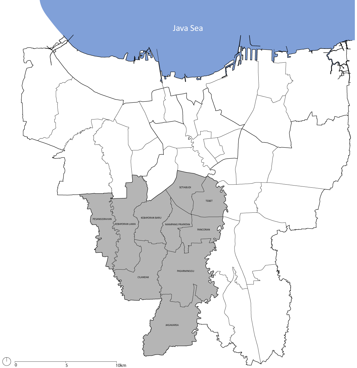 City (Kota Administrasi) of South Jakarta, divided into several Subdistricts (Kecamatan)